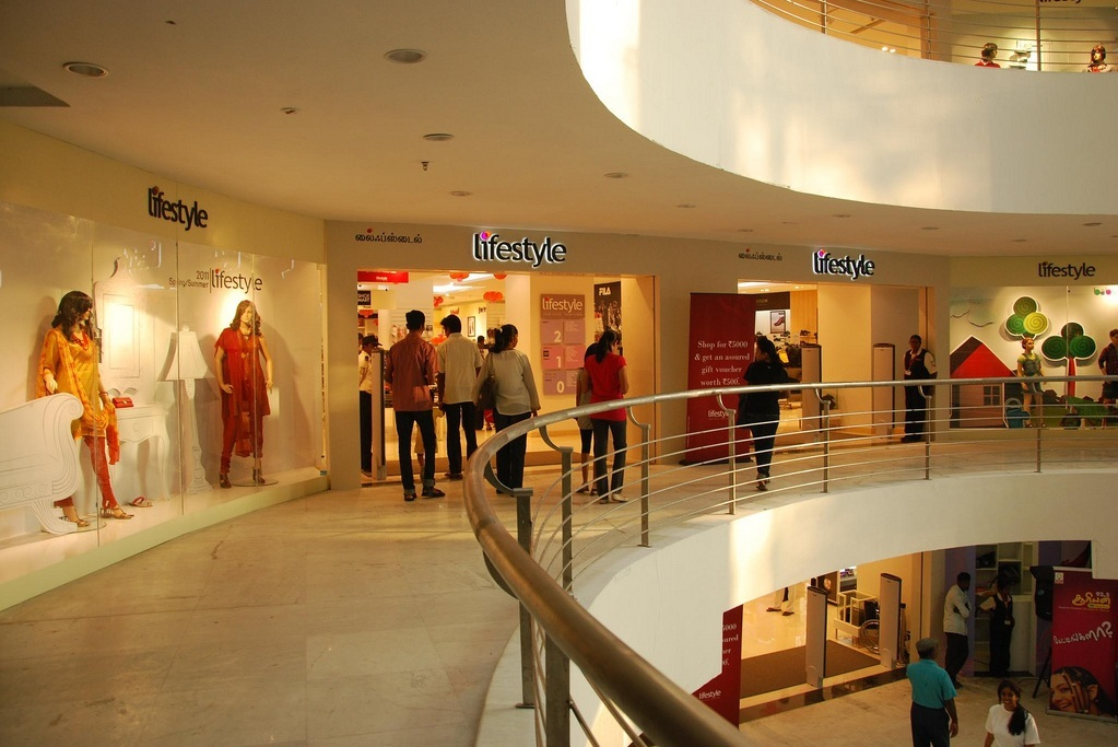 Brookeh